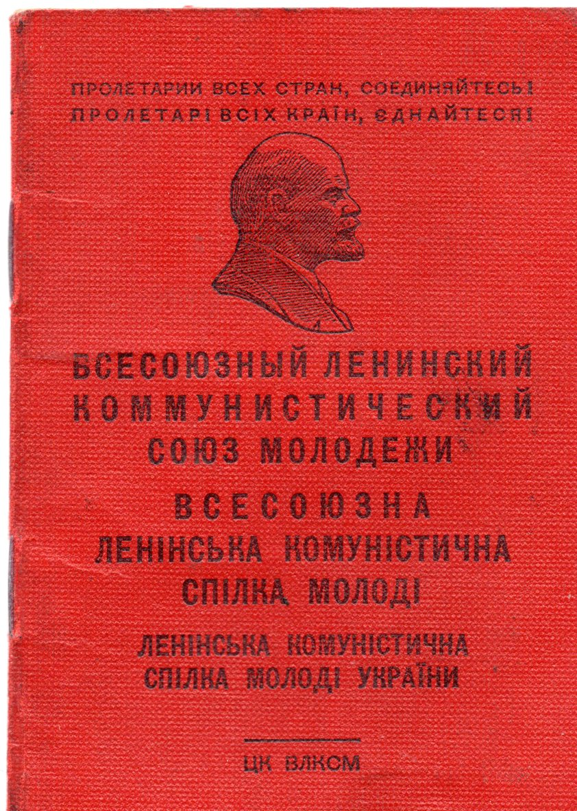 Komsomolsky ticket LKSMU, 1967